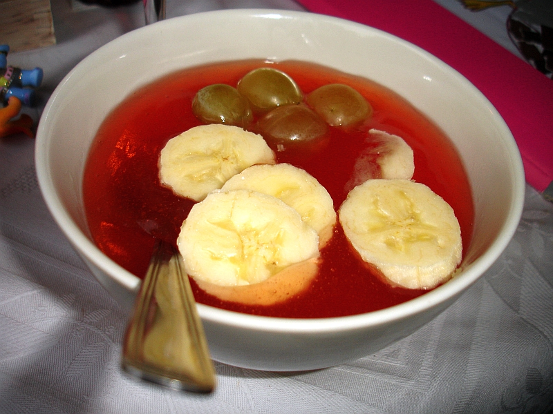 Kissel, with bananas and grapes